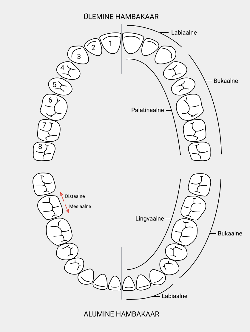 Tooth surfaces